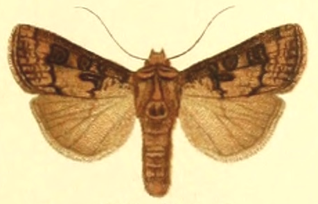 Image from Plate 5 of Die Gross-Schmetterlinge der Erde (The Macrolepidoptera of the World) Vol. 3